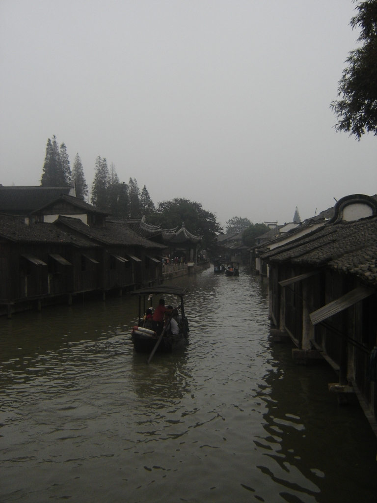 General view of houses and canals in Wuzhen, China